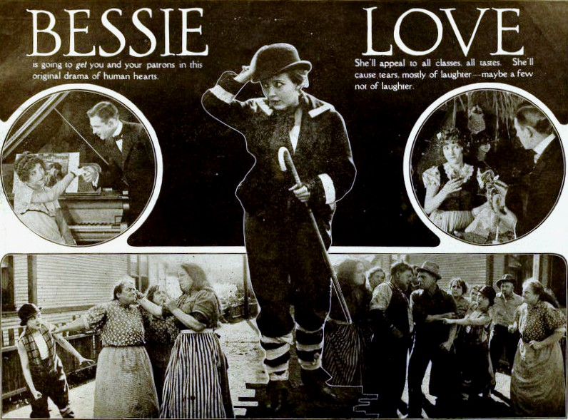 Ad for the American film A Yankee Princess with Bessie Love, on page 464 of the April 26, 1919 Moving Picture World.